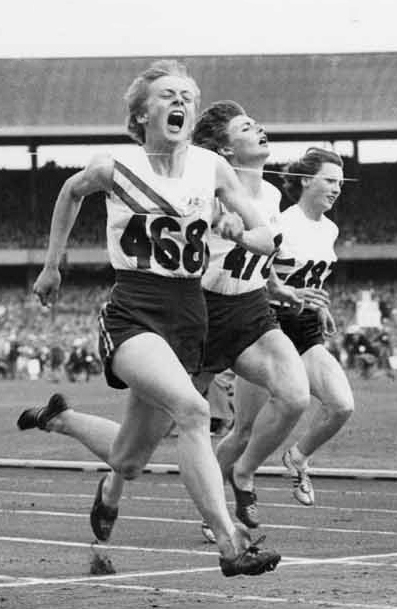 Women's 100 m final at the 1956 Olympics. Left-right: Betty Cuthbert, Marlene Mathews, Heather Armitage